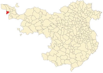 Isòvol